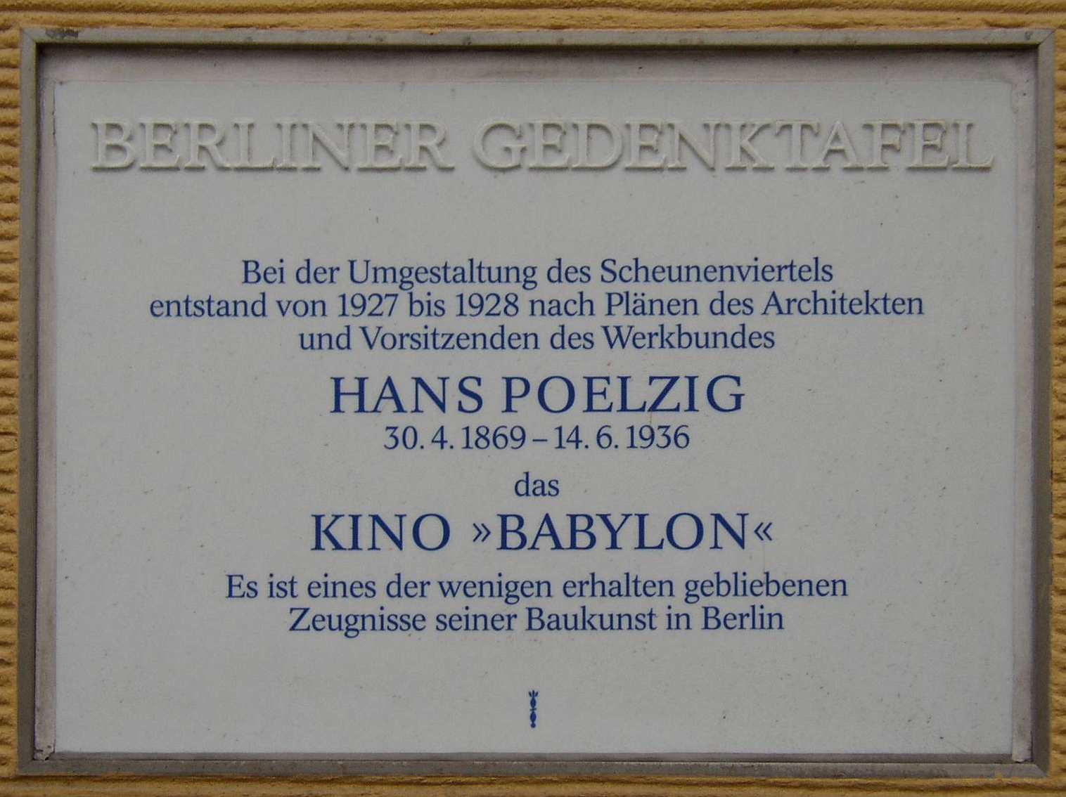 Berlin memorial plaque for Hans Poelzig in Berlin, Germany